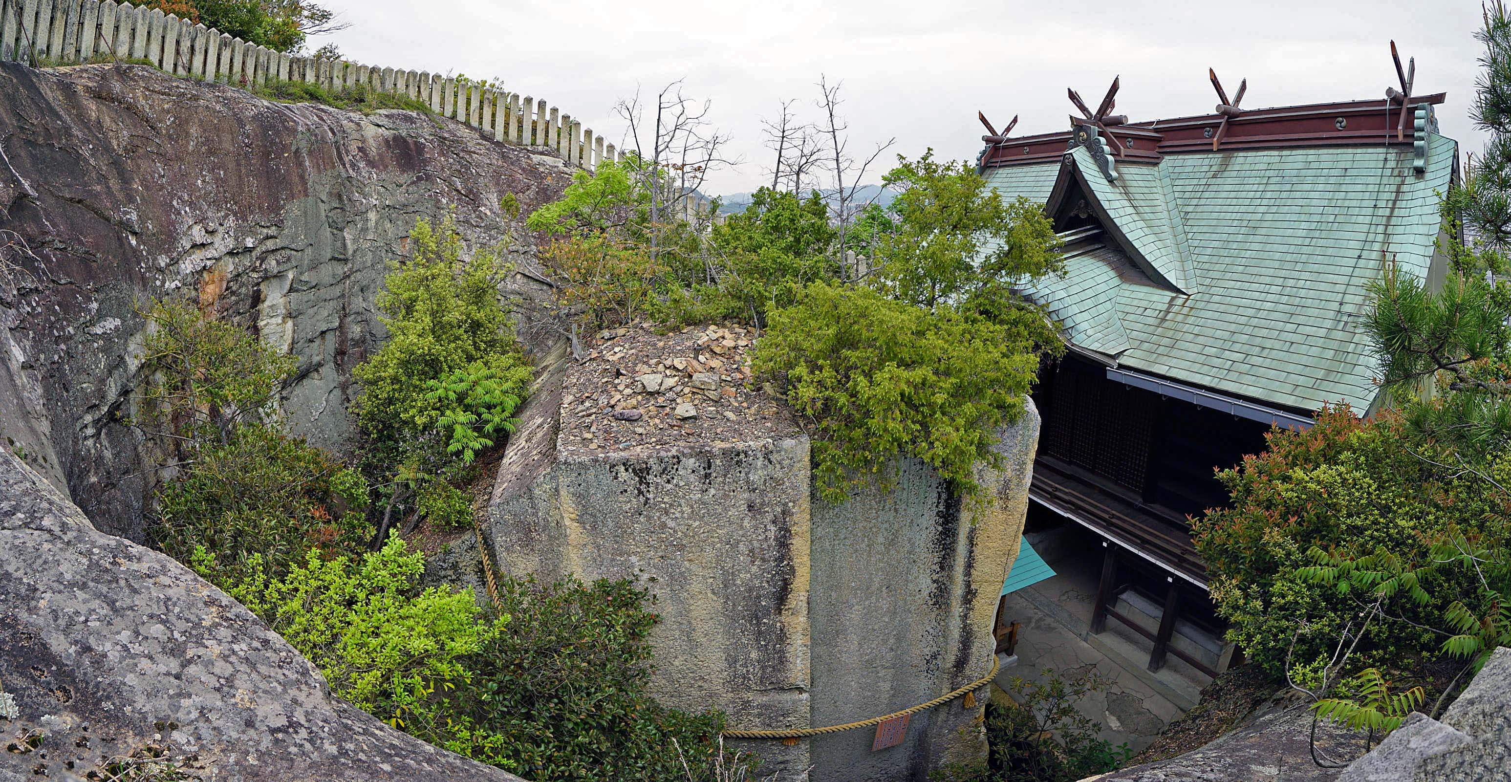 Ishi-no-hoden , 石の宝殿